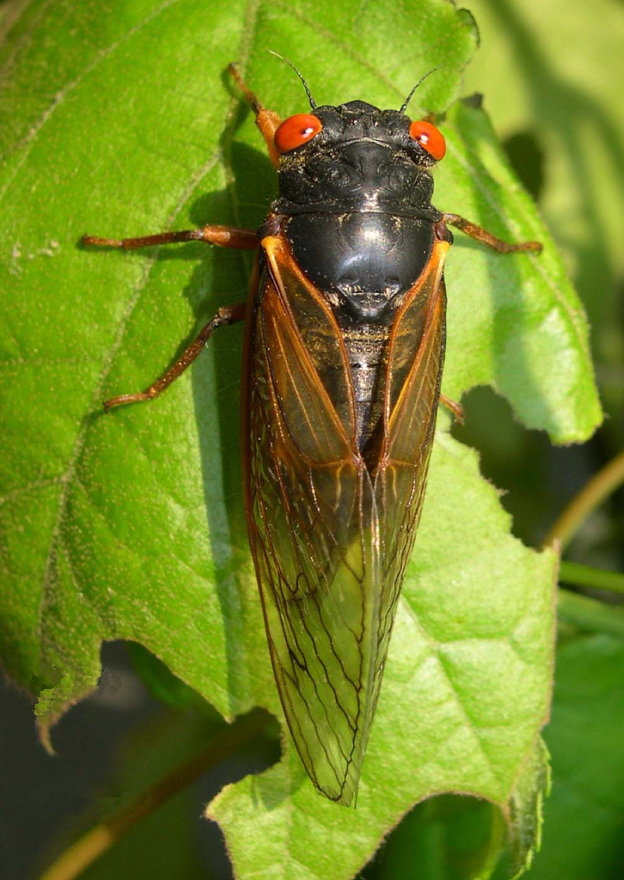 Magicicada septendecula male (Brood IX). Photograph by C. Simon.